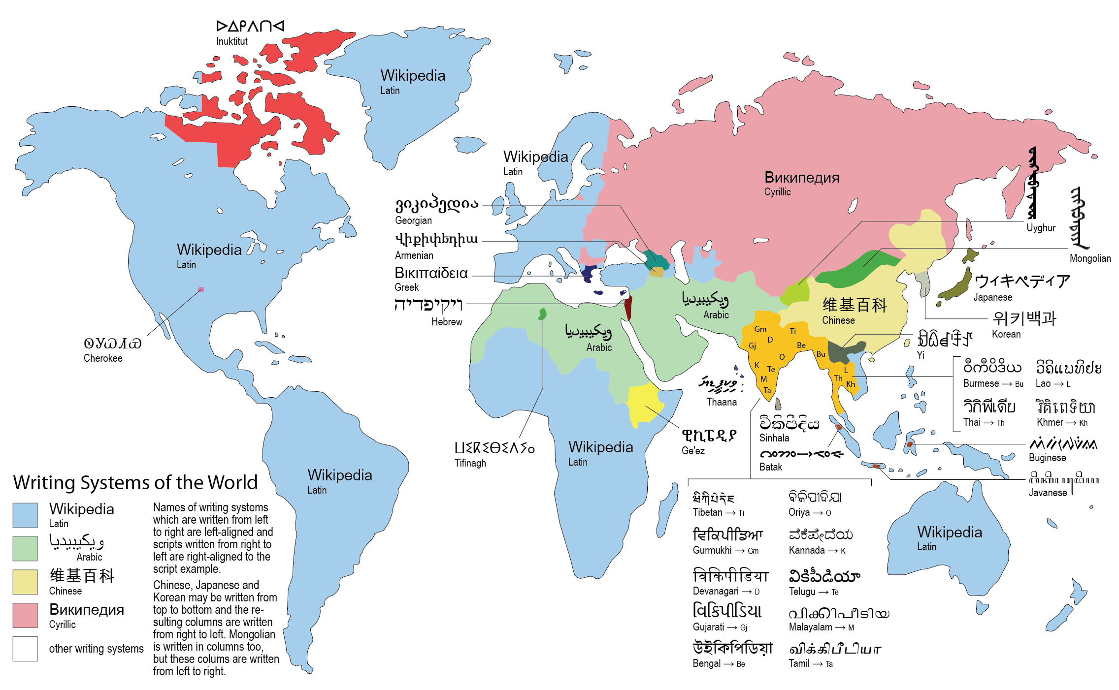 Writing Systems of the World